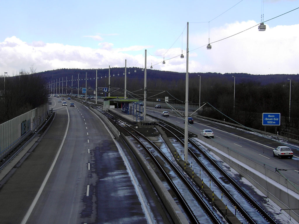 Federal motorway 562 on junction Bonn-Rheinaue, city railway stop Rheinaue in centre strip